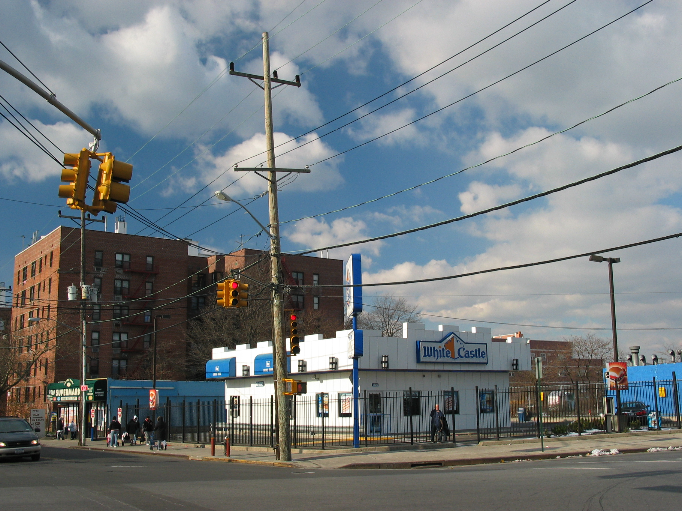 White Castle at the corner of Mott Ave and Baech Channel Dr, Queens, NY, USA (Google Maps)